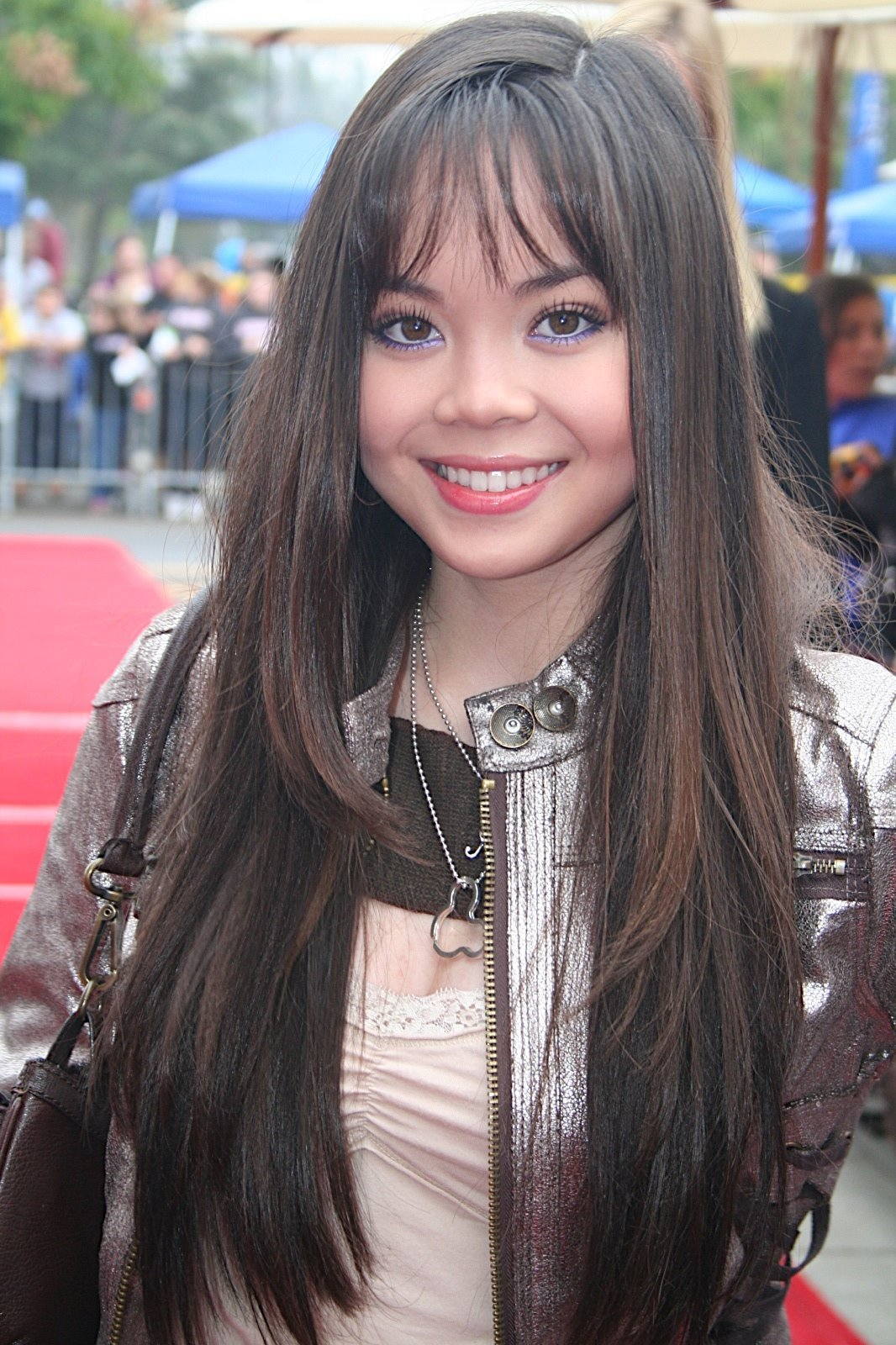 American actress Anna Maria Perez de Taglé of Disney's Camp Rock on the red carpet at the 62nd Annual Mother Goose Parade in San Diego County. Photograph by Mother Goose Parade / Popular Press Media Group (PPMG) - . For more...